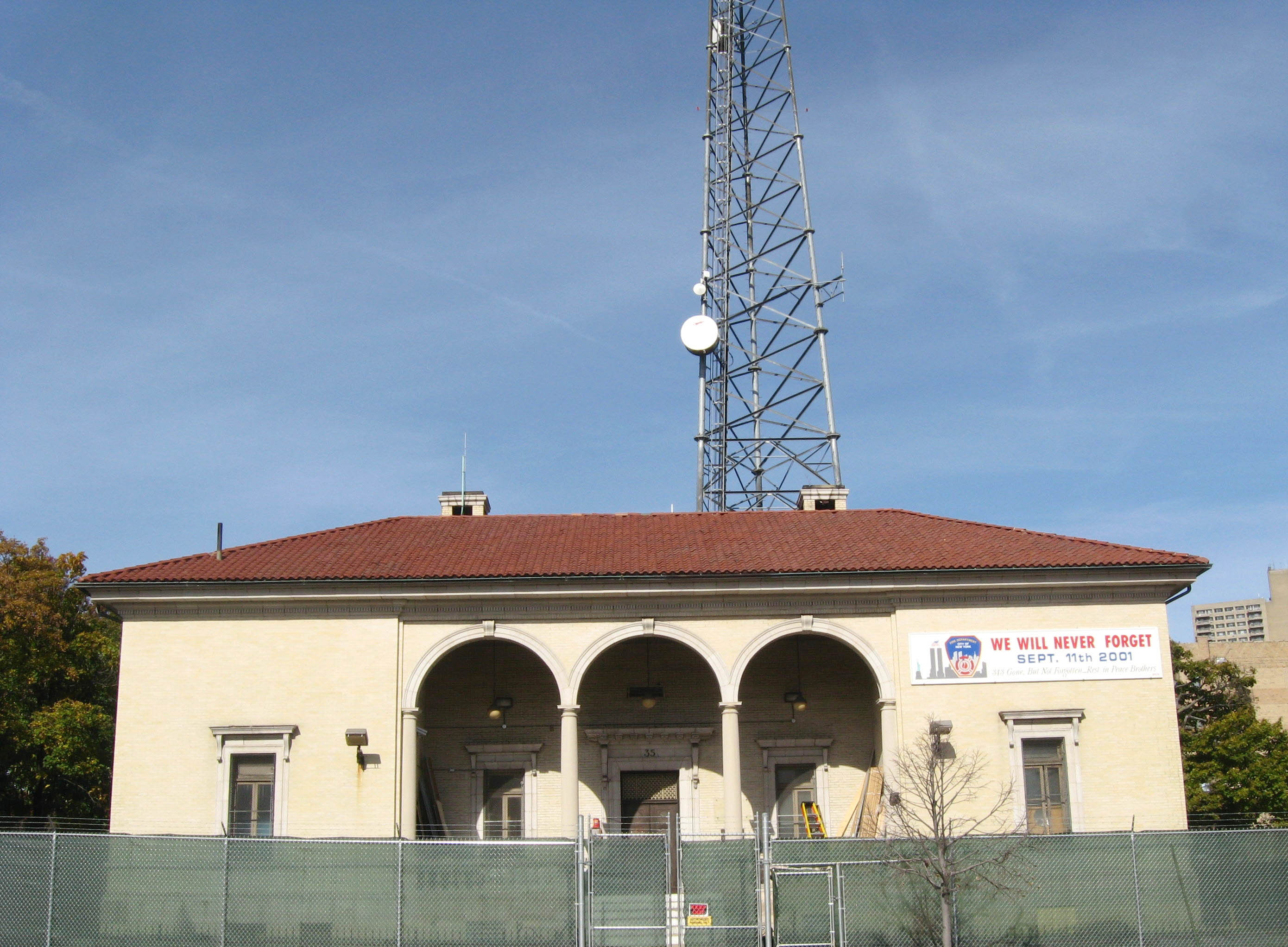 Looking north across west end of the Boulevard, east of Flatbush Avenue, at 35 Empire Boulevard, Brooklyn Central Office, Bureau of Fire Communicaations, New York City Fire Department radio station. NYCLPC designation 1966.